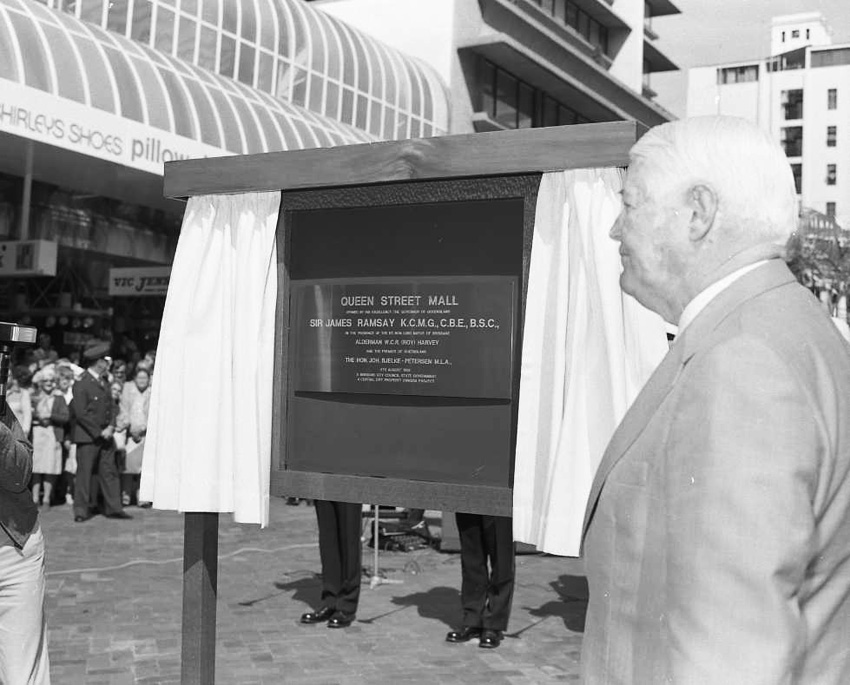 Queen Street Mall opening by Governor Sir James Ramsay